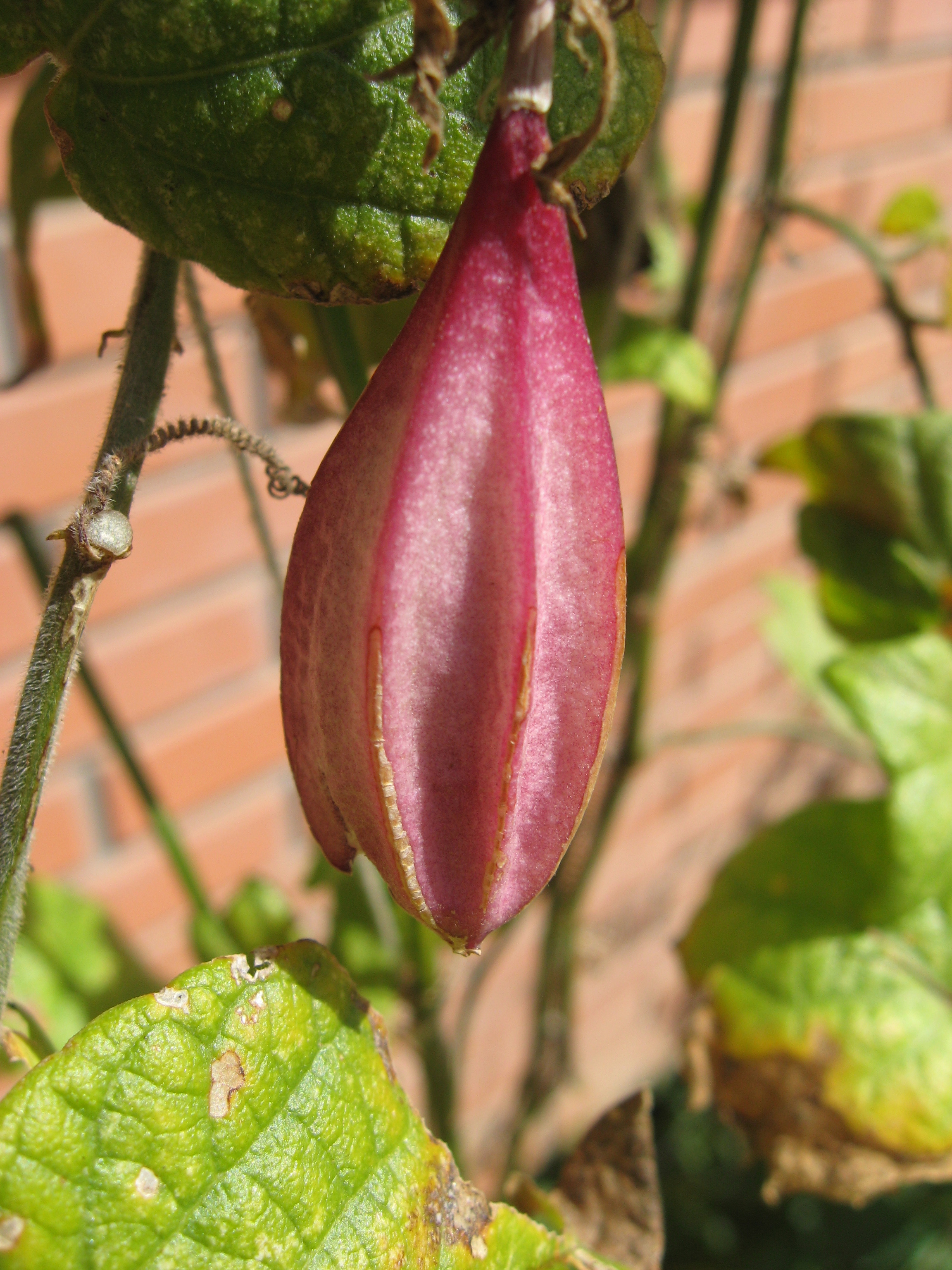 Passiflora capsularis passion fruit, photographed in Porto Alegre, Southern Brazil